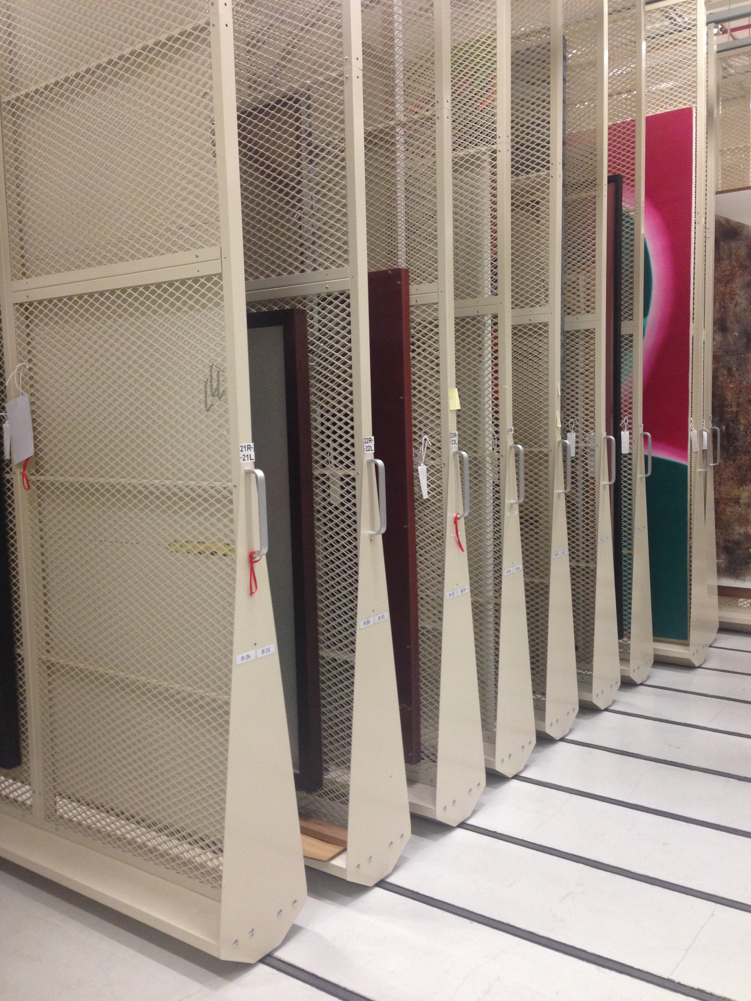 Racks for paintings in a storage room on Level 1 of the Heritage Conservation Centre, National Heritage Board, Singapore.